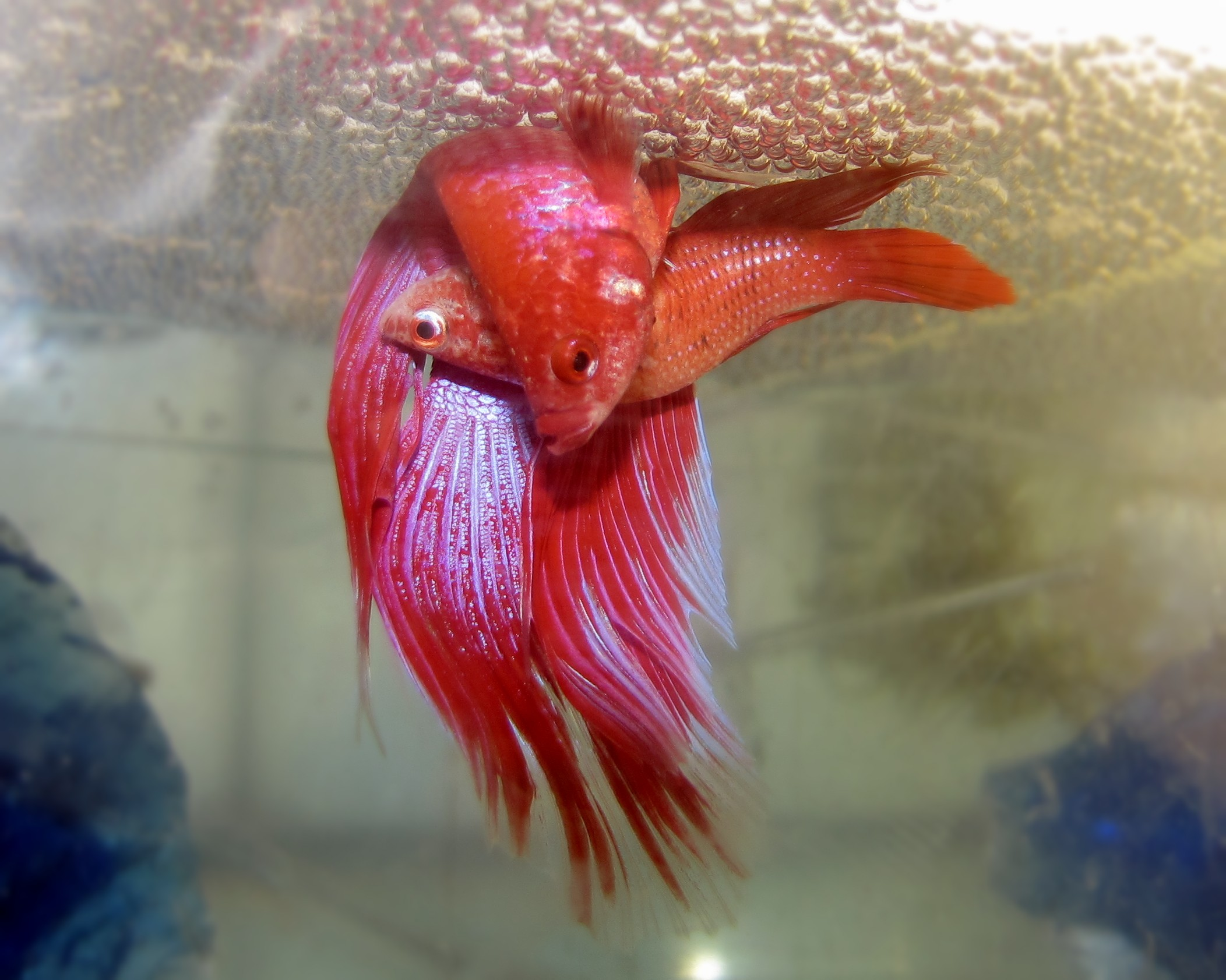 A pair of bettas spawning under a bubble nest. Taken in a breeding tank.